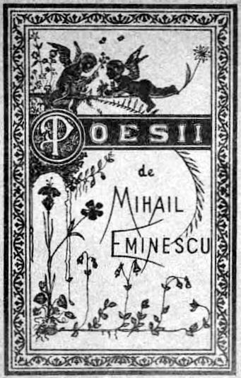 Poesii, first book of poems of Mihai Eminescu (1850 - 1889)